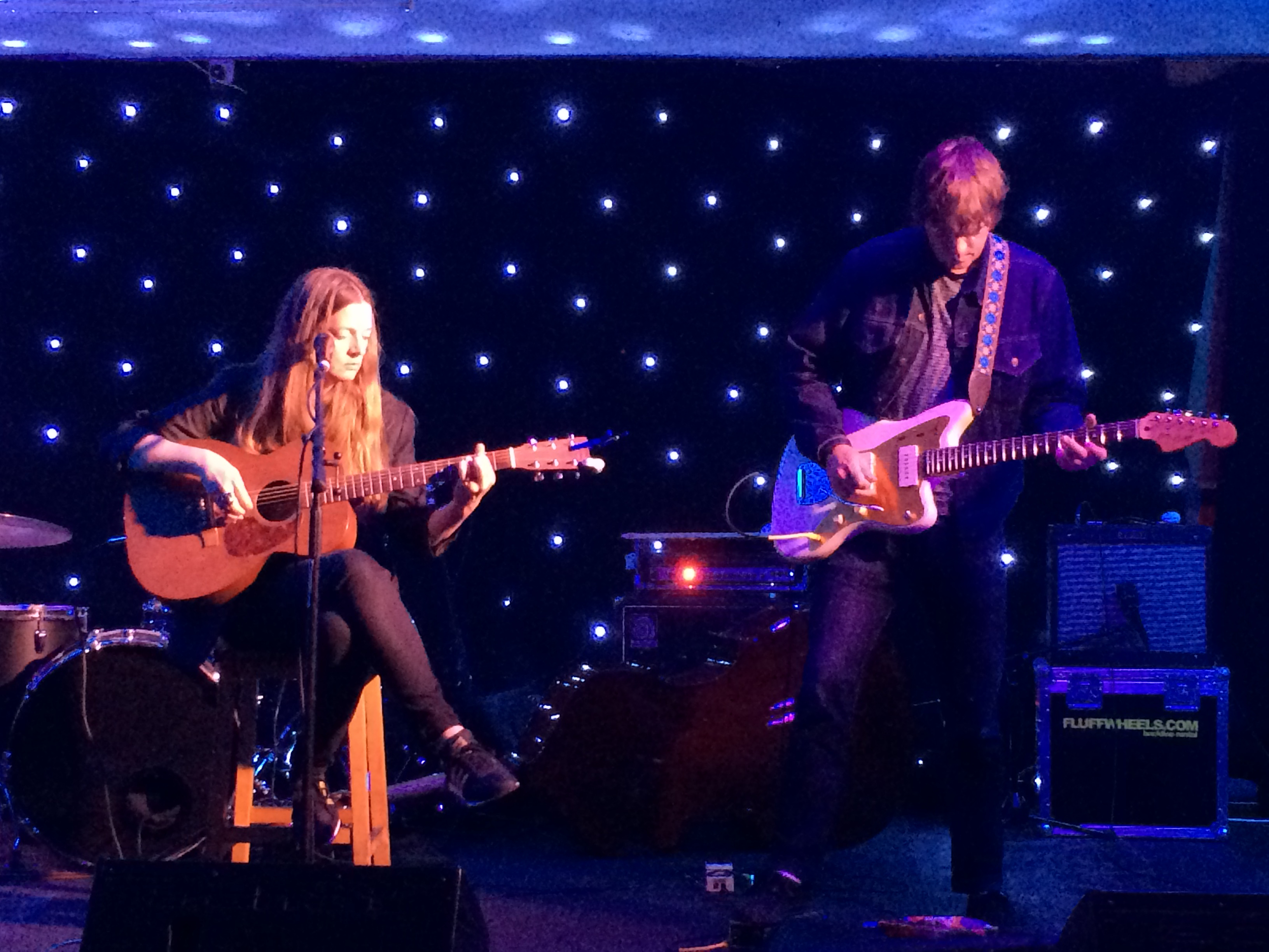 Meg Baird playing live at Brudenell Social Club, Leeds, UK, 15 September, 2015.